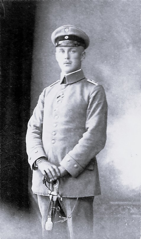 Fähnrich Rehfeld, 2./9; here: with Portepee